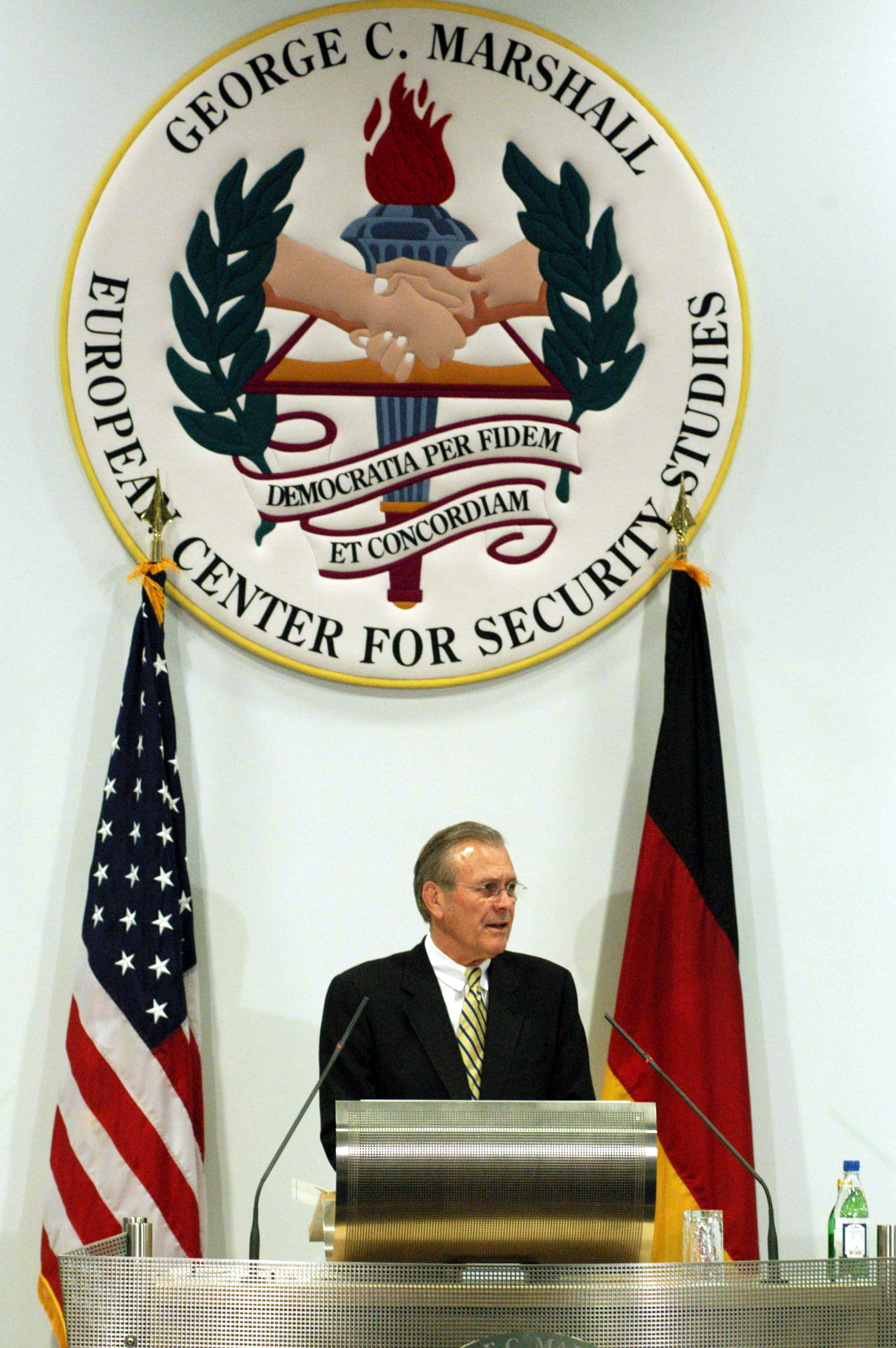 Secretary of Defense Donald H. Rumsfeld addresses the audience during ceremonies marking the 10th anniversary of the opening of the George C. Marshall European Center for Security Studies in Garmisch, Germany, on June 11, 2003. The Marshall Center, a cooperative venture sponsored jointly by the U.S. and Germany, is an educational institution seeking to spread democratic government practices and ideals in the newly emerging democracies of Europe and Eurasia.